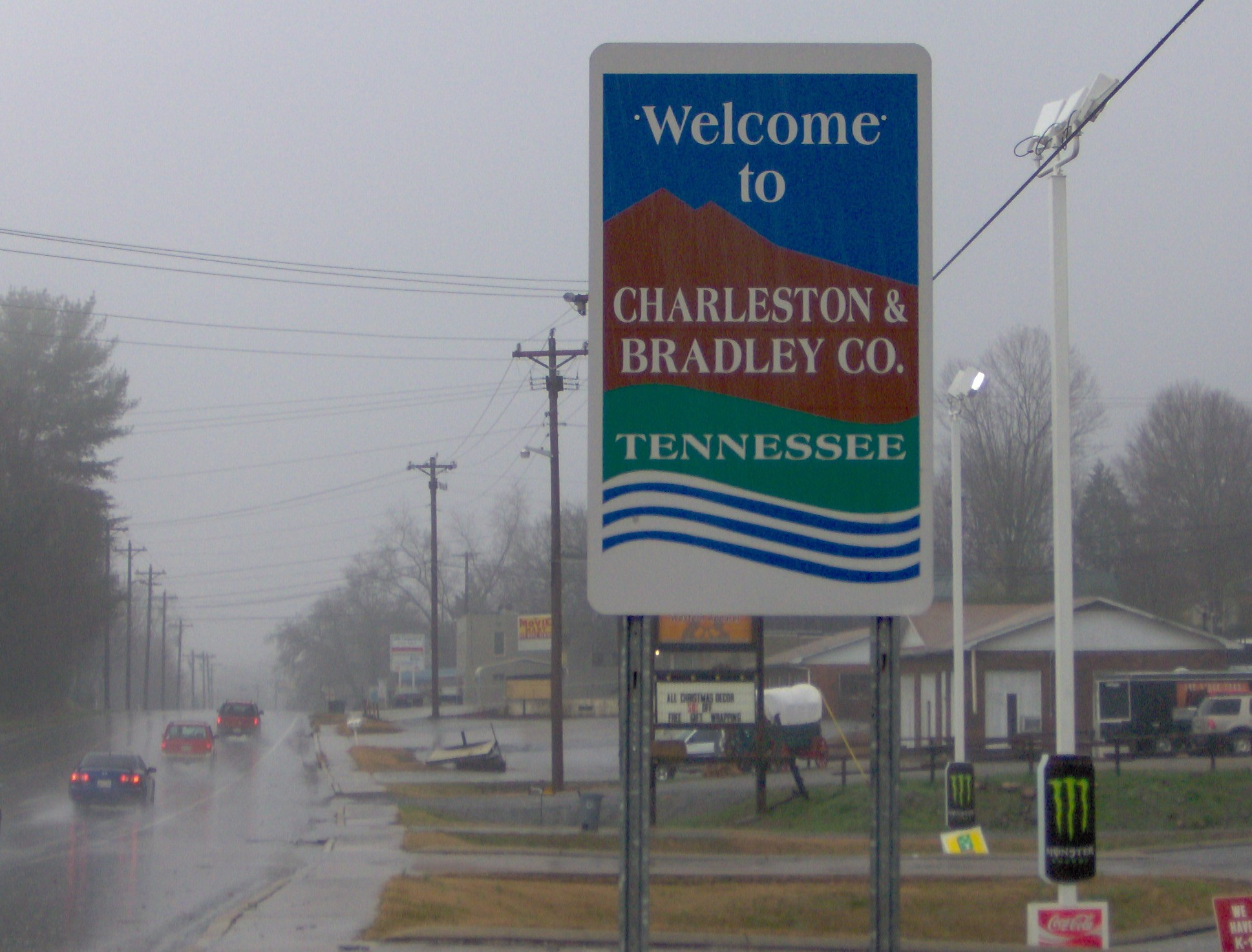 Welcome sign along US-11 (Lee Highway) in Charleston, Tennessee, located in the Southeastern United States. The welcome sign's design— which is standard for towns in Bradley County— alludes to the county's situation between the Appalachian Mountains and the Tennessee River.